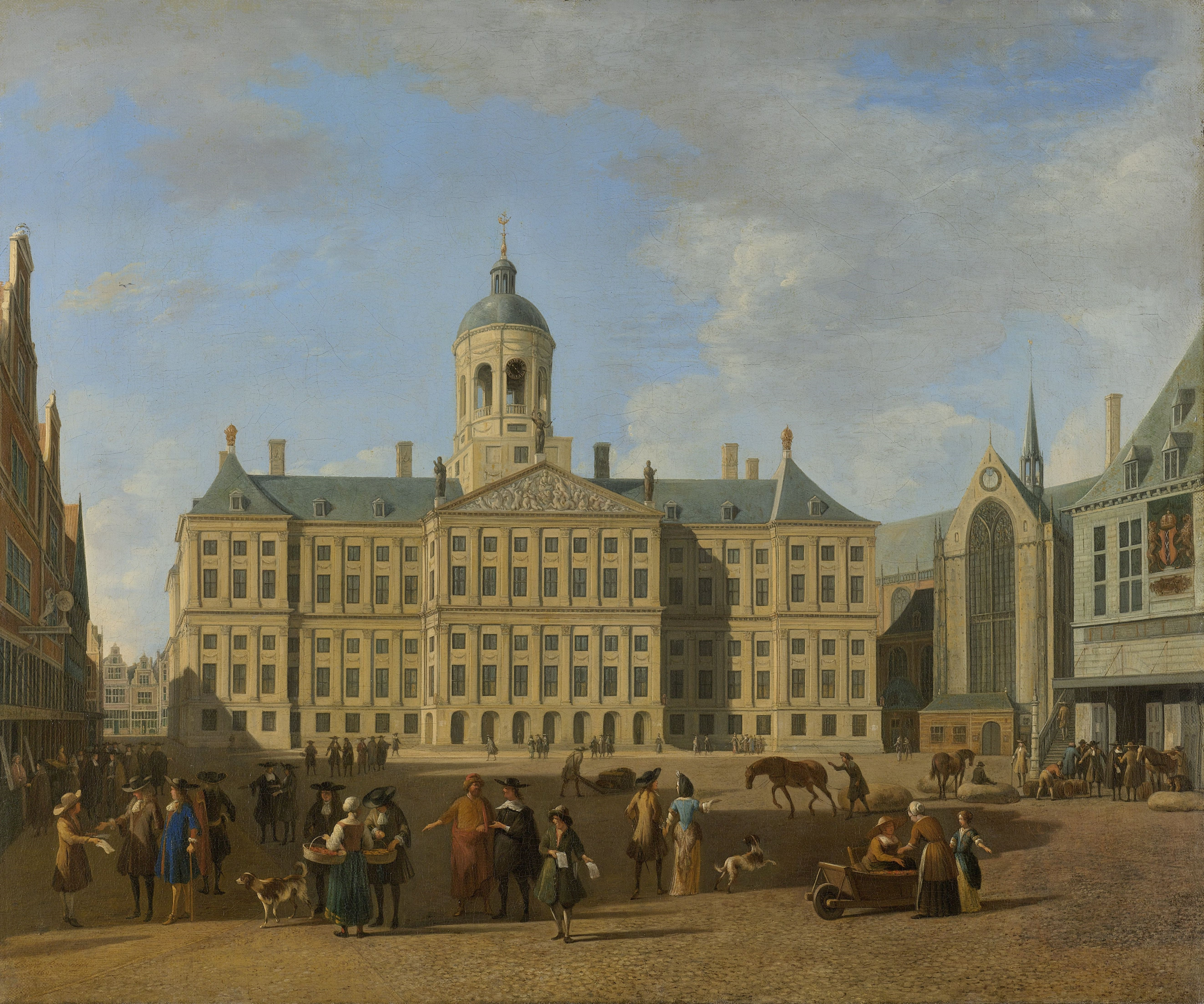 The town hall of Amsterdam (now Royal Palace of Amsterdam) with to its right the Nieuwe Kerk and the Waag. On the left the house with the signboard "In den Wackeren Hont" (In the Wakeful Dog) used by the publisher Hondius (hond means dog in Dutch), later in use by Valck & Schenk